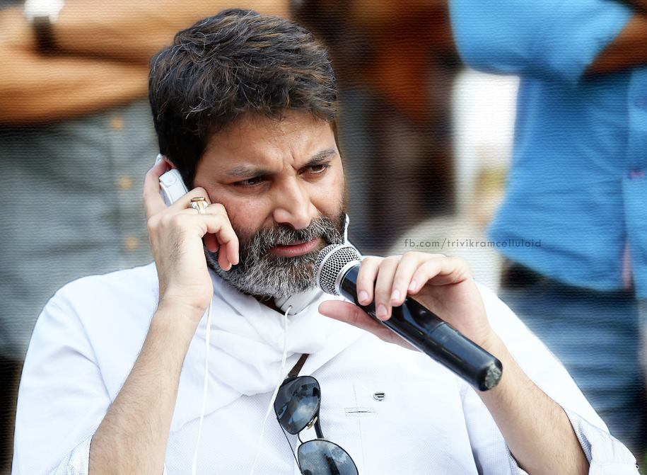 Trivikram srinivas is indian film director and screen writer...